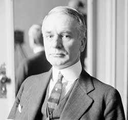 Cordell Hull, 1924 (public domain from )